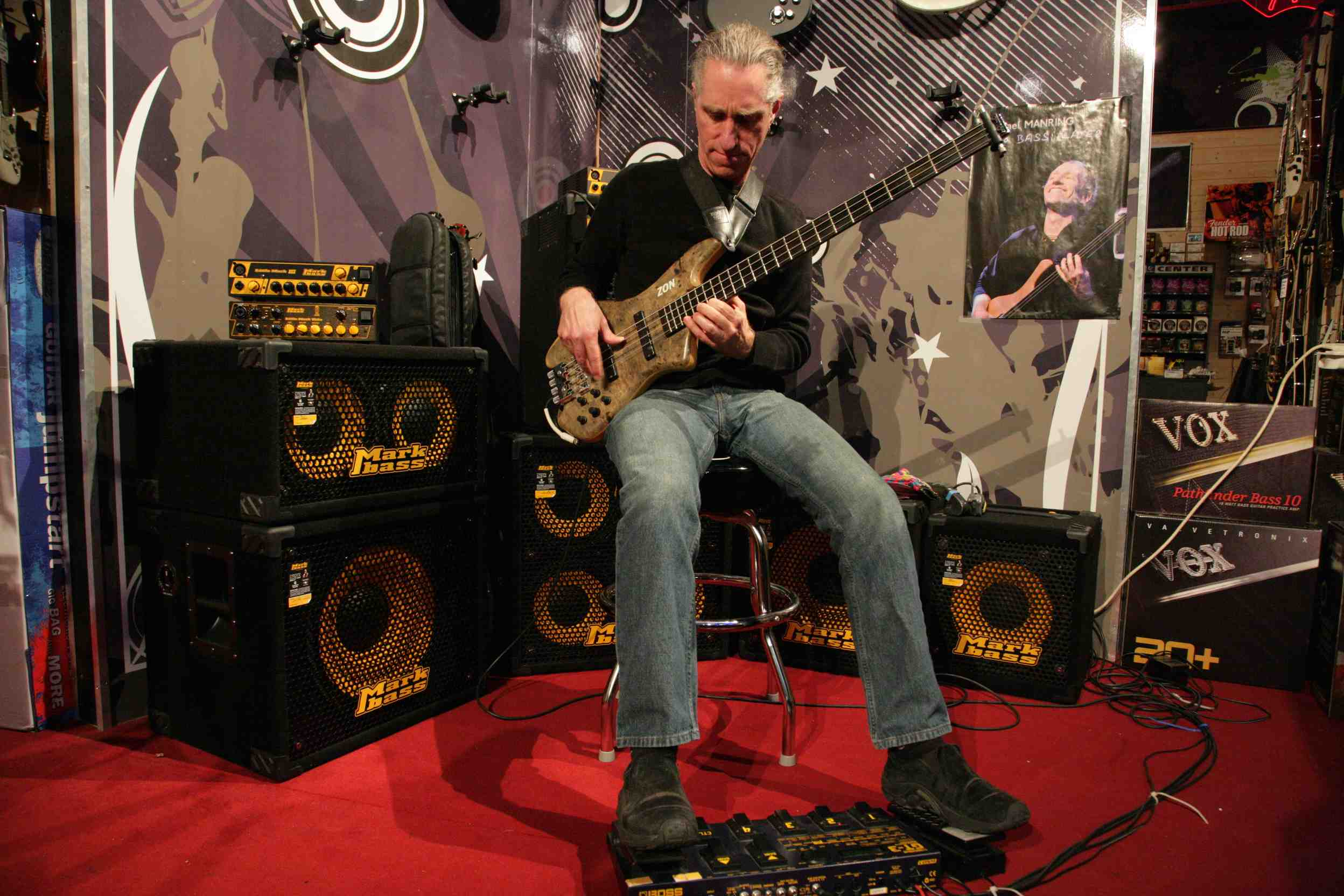 Michael MANRING,US Bass Player